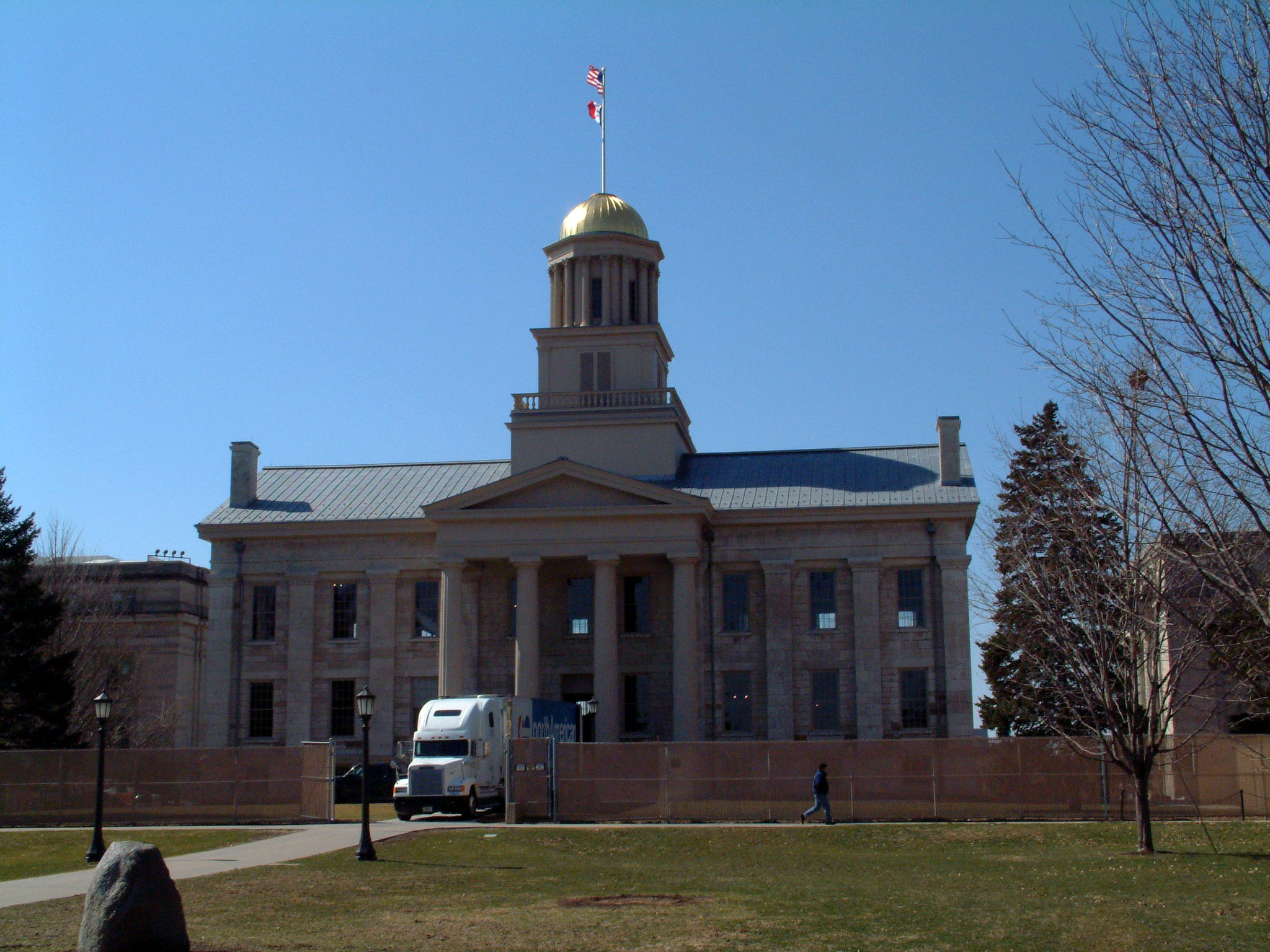 Former Iowa State Capitol in Iowa City, Iowa during renovation after the 2001 fire.